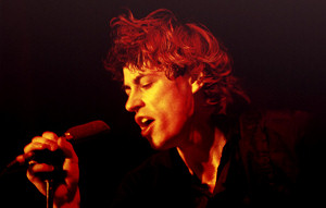 Bob Geldof, Boomtown Rats, Chateau Neuf, Oslo, Norway